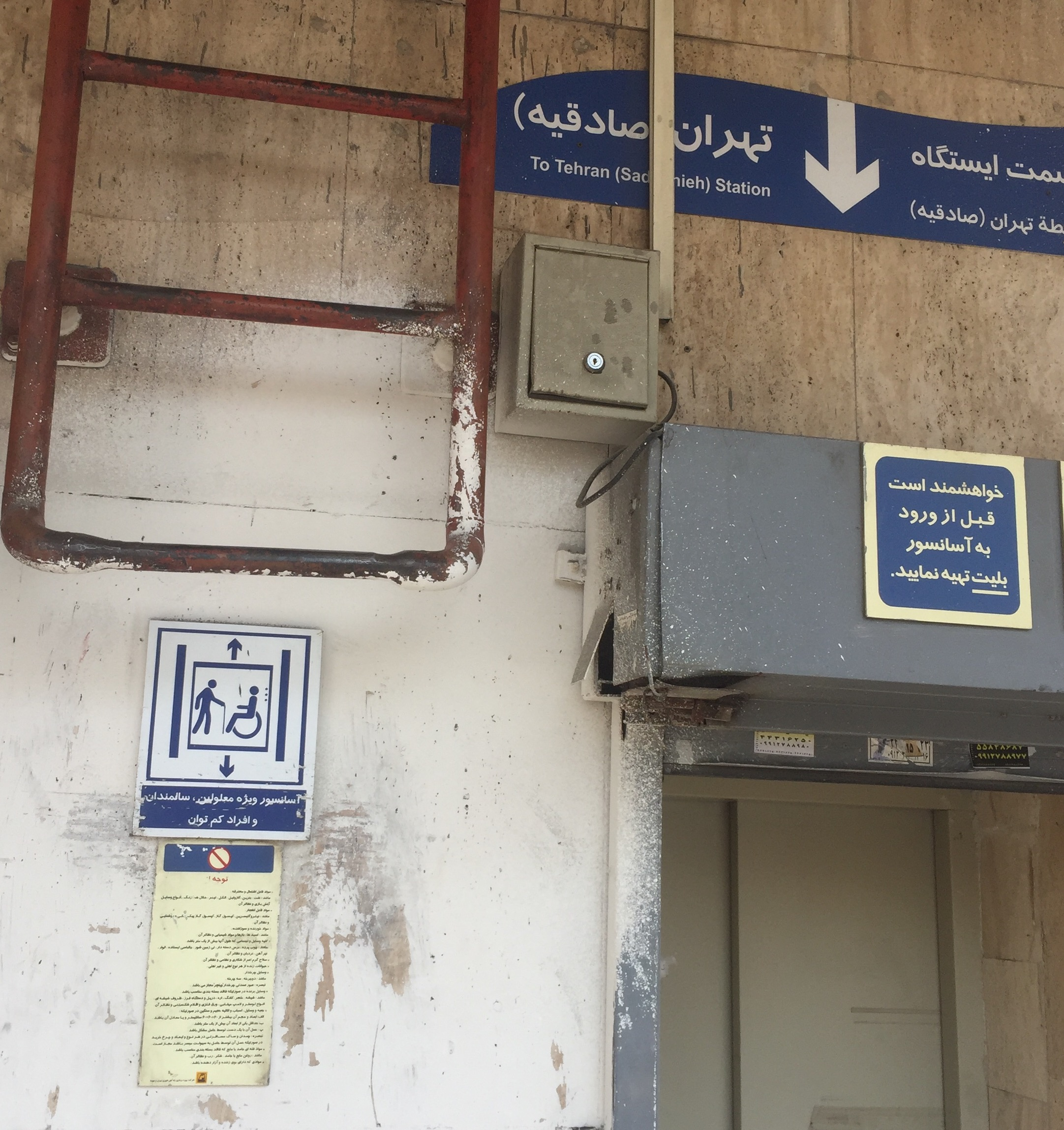 It's a metro elevator for seniors,disabled persons,etc. -Wheelchair accessible sign